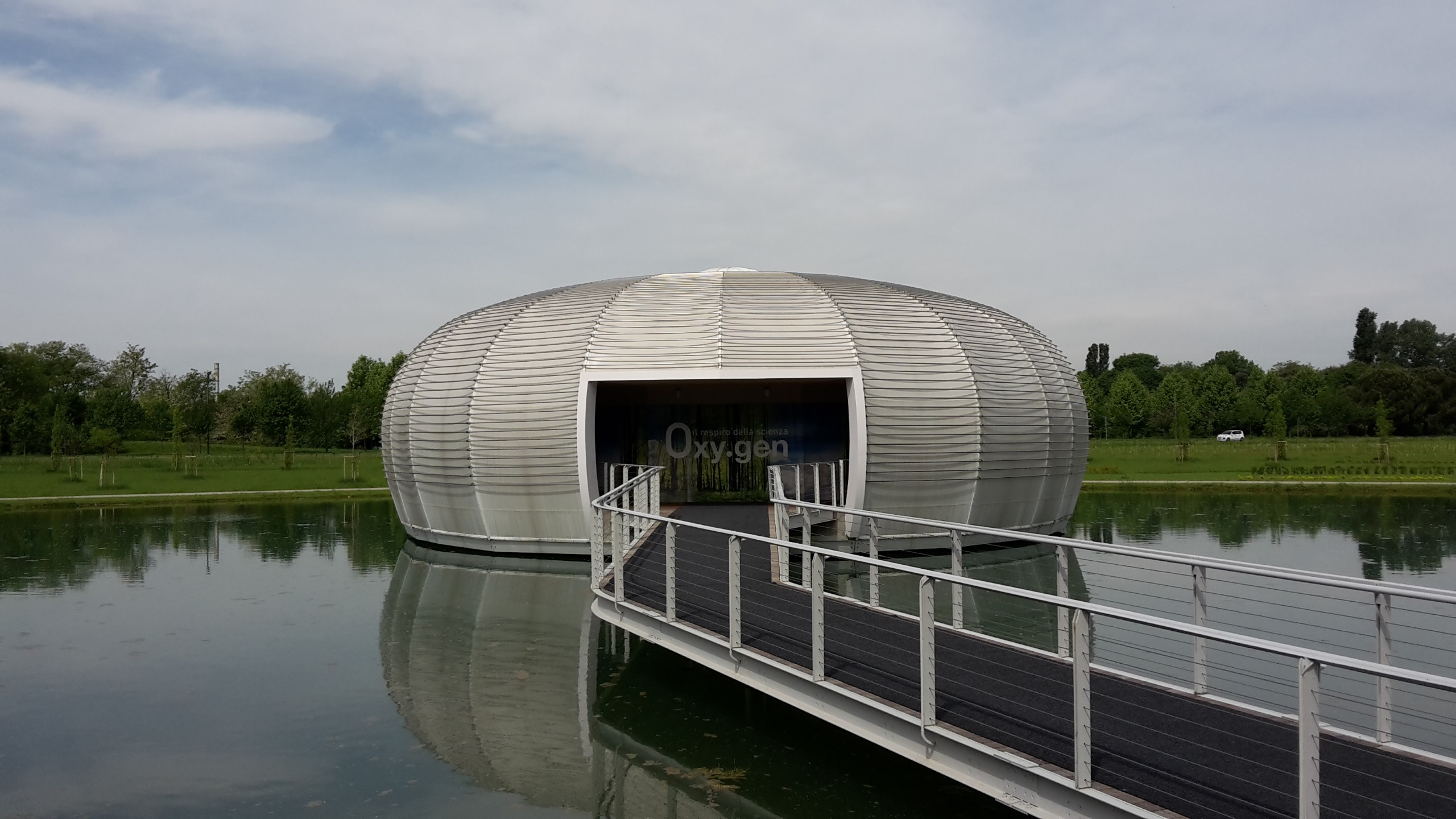 Oxy.gen pavillion in Bresso, near Milan (Italy).